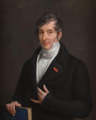 Painted portrait of Jacques-Joseph Champoigeac